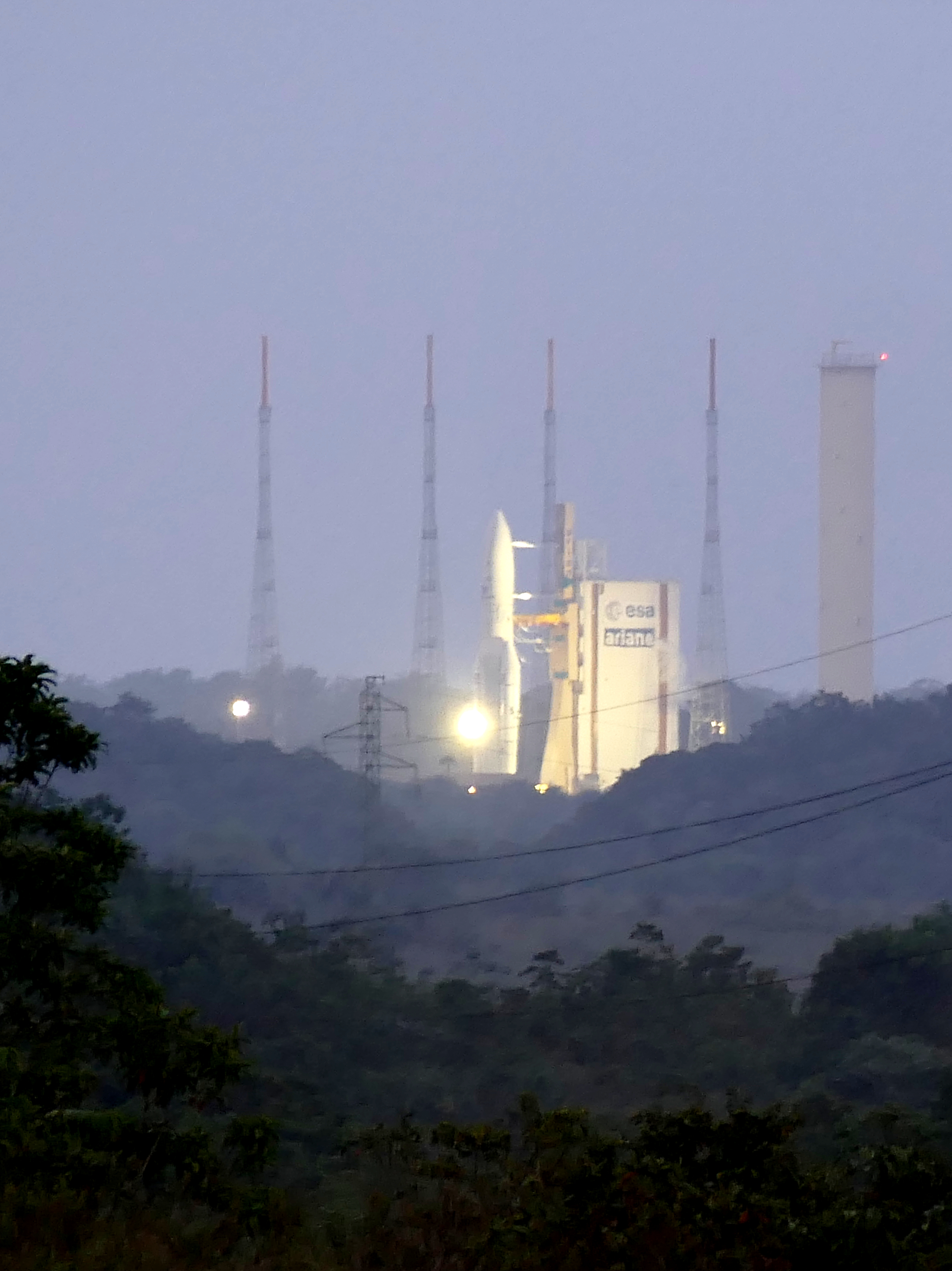 Agami Viewing Site, Guyana Space Centre, Kourou, French Guyana, FRANCE